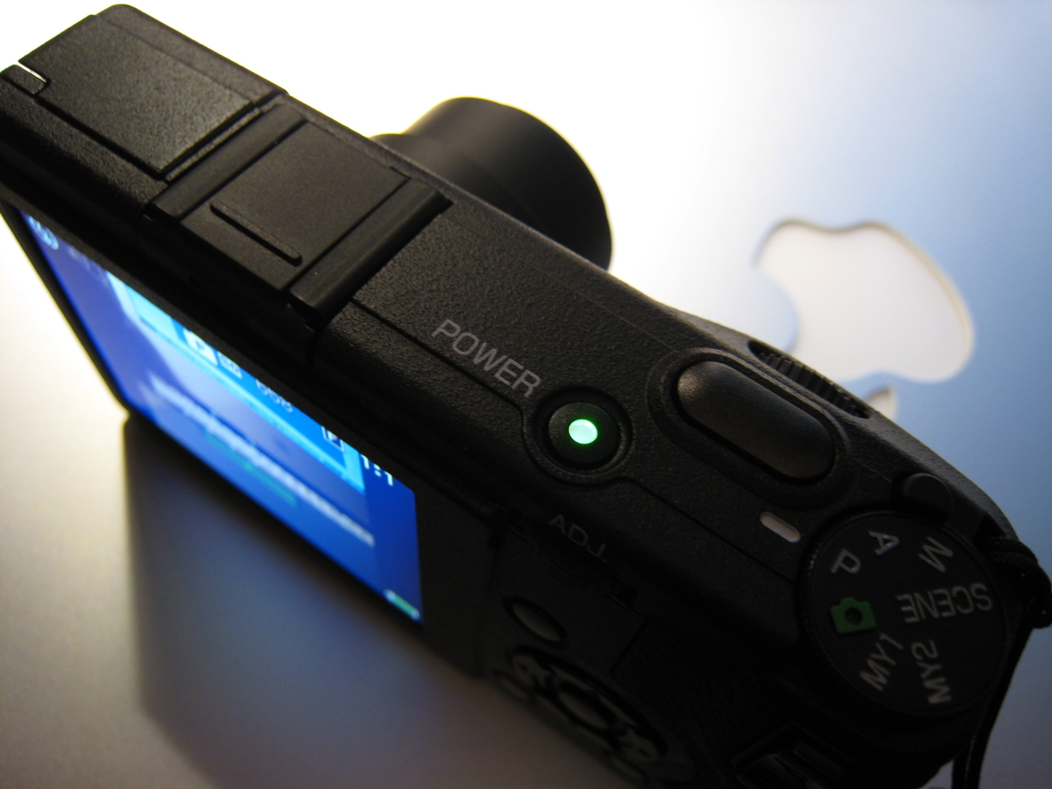 Ricoh GR Digital II camera from above and rear with the lens protruded